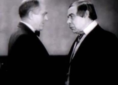 Grant Mitchell (left) & George F. Marion in Man to Man - trailer (cropped screenshot)